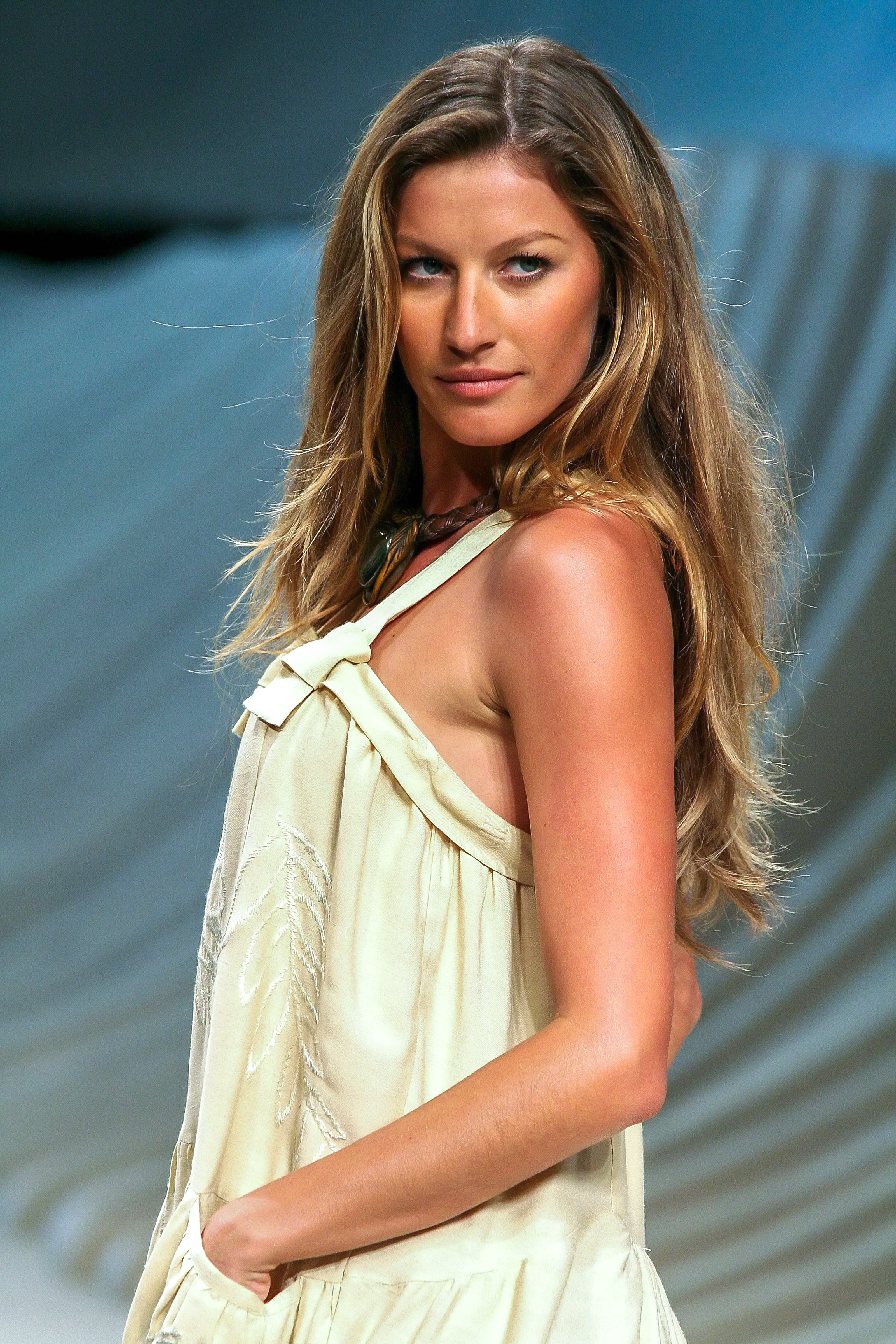 Brazillian model Gisele Bündchen at the Fashion Rio Verão 2007.